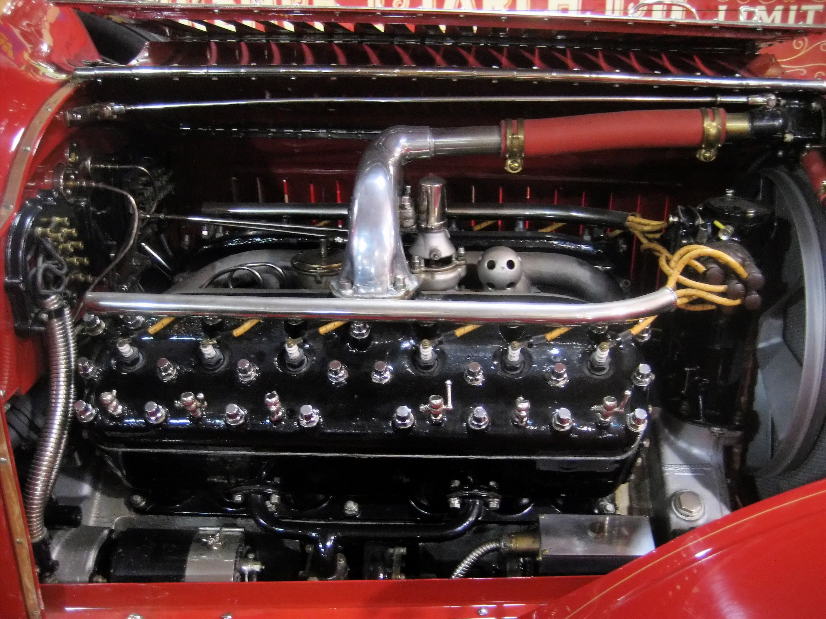 V-12 Engine of 1916 Packard Twin-Six Model 1-35 Town Car Limousine with custom body by Kimball Company of Chicago. On display at Fort Lauderdale Antique Car Museum. This is the first V-12 engine in a production automobile. 12 cylinder, 428 cubic inches; 88 bhp.